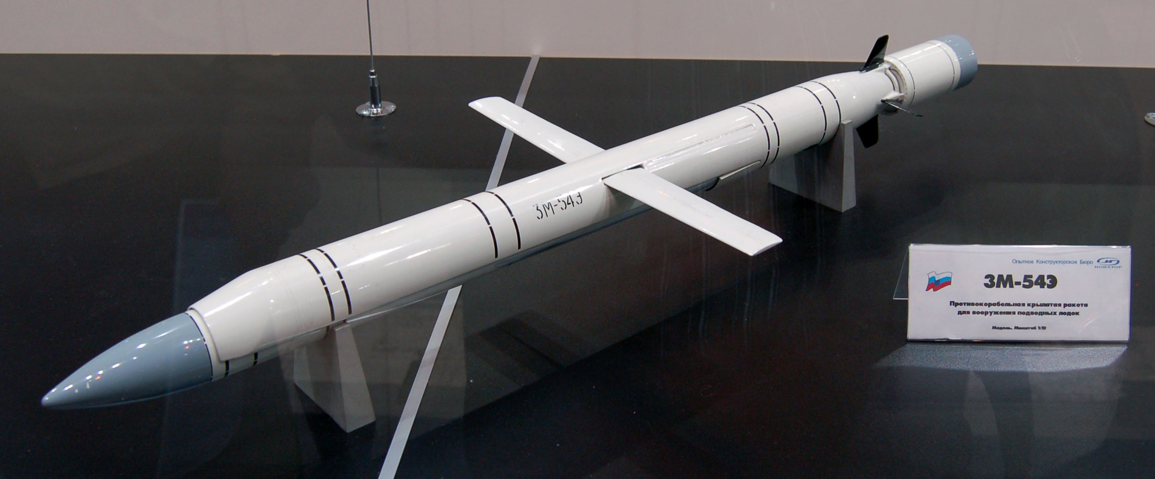 Maquette of 3M-54E missile SS-N-27 "Sizzler"